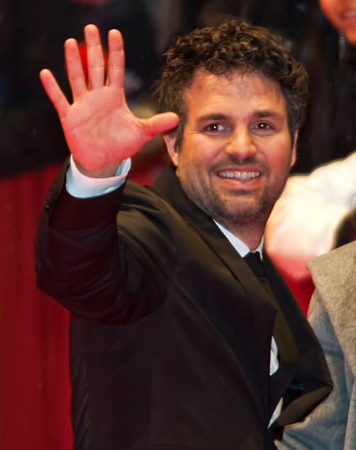 Mark Ruffalo attending the premiere of the film "Shutter Island" at the 60th Berlin International Film Festival